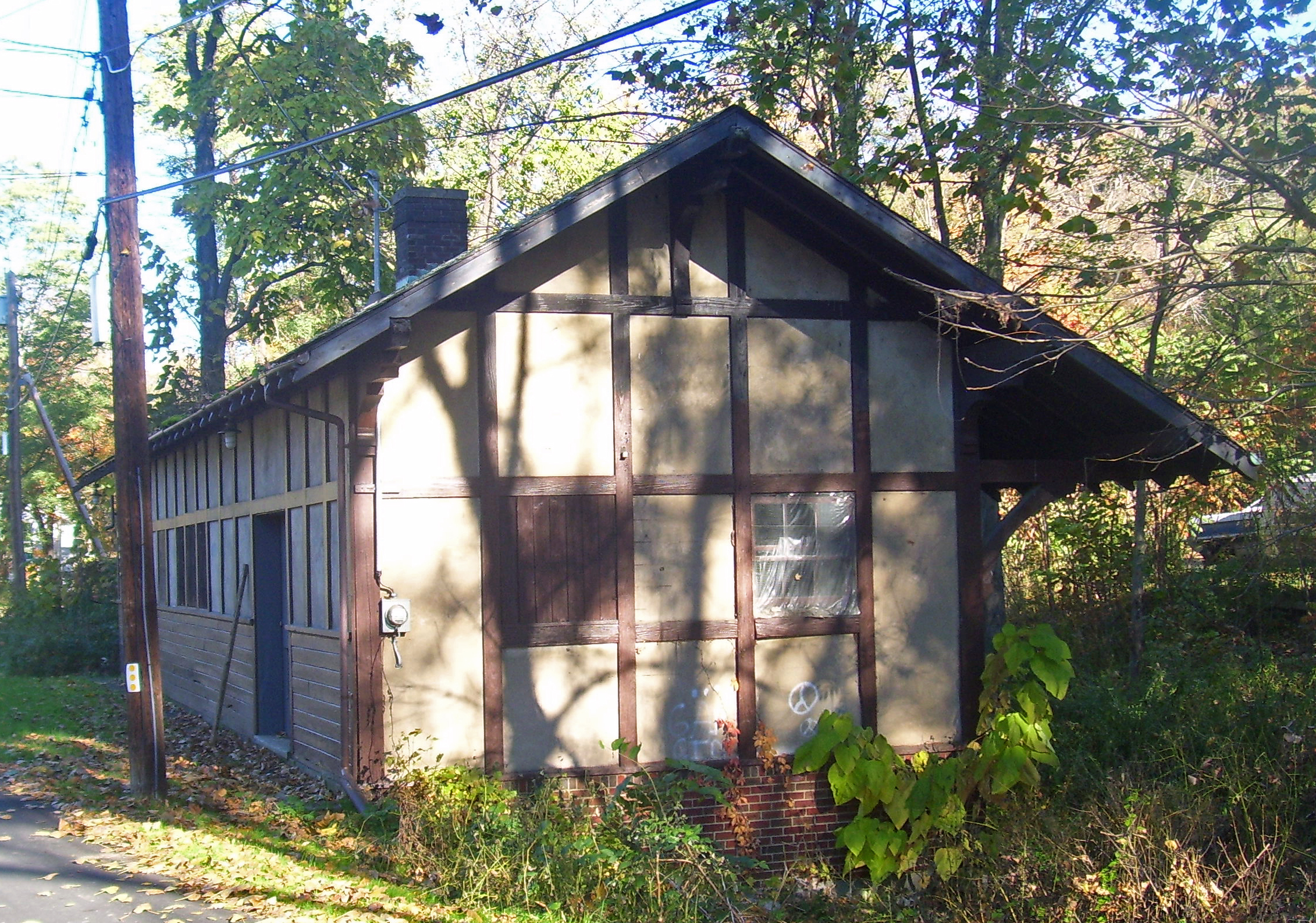 O & W Railroad Station at Port Ben, Napanoch, NY, USA